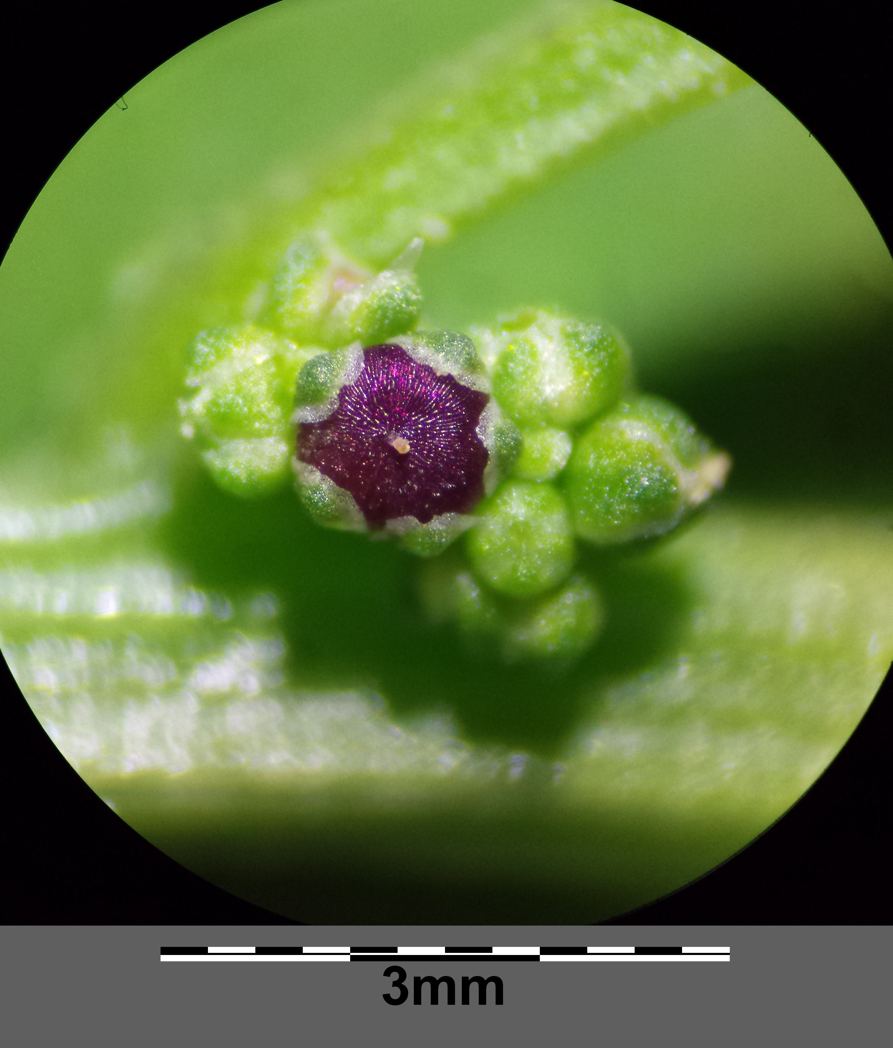 Fruits Taxonym: Chenopodium polyspermum ss Fischer et al. EfÖLS 2008 ISBN 978-3-85474-187-9 Location: Jedleseer Friedhof, Vienna-Floridsdorf - ca. 160 m a.s.l. Habitat: grave